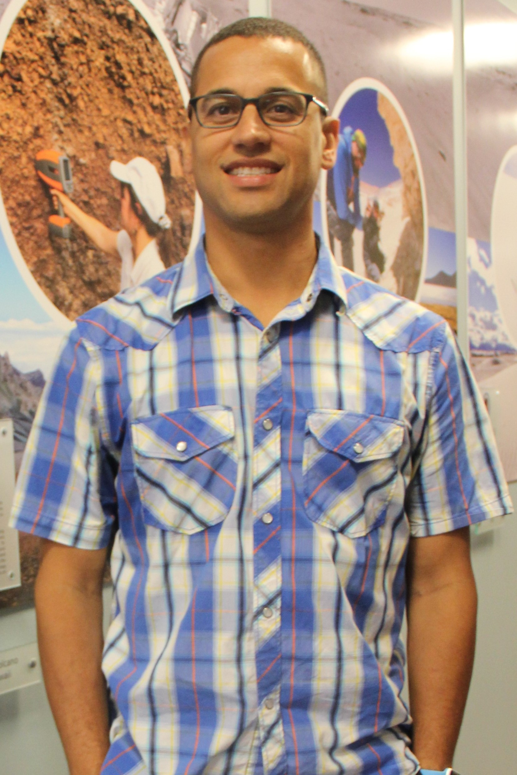 Franck Marchis, astronomer and planetologist Franco-American, born in Caen (France) in 1973. Specialist of the asteroids and the solar system. Member of the SETI Institute. Photo taken at the institute SETI, during the visit of the Société Astronomique de France.